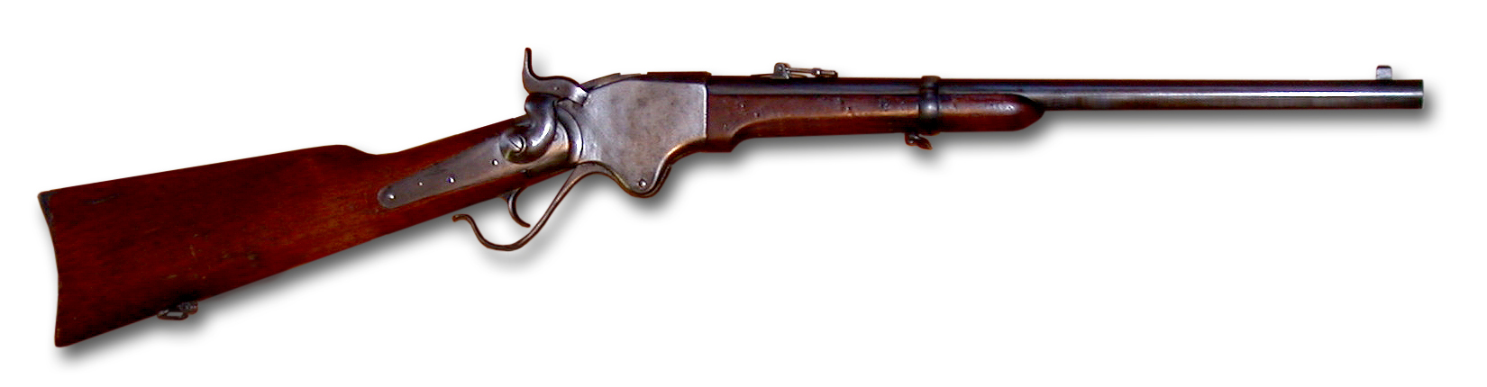 Spencer Carbine Mod 1865 .50 caliber